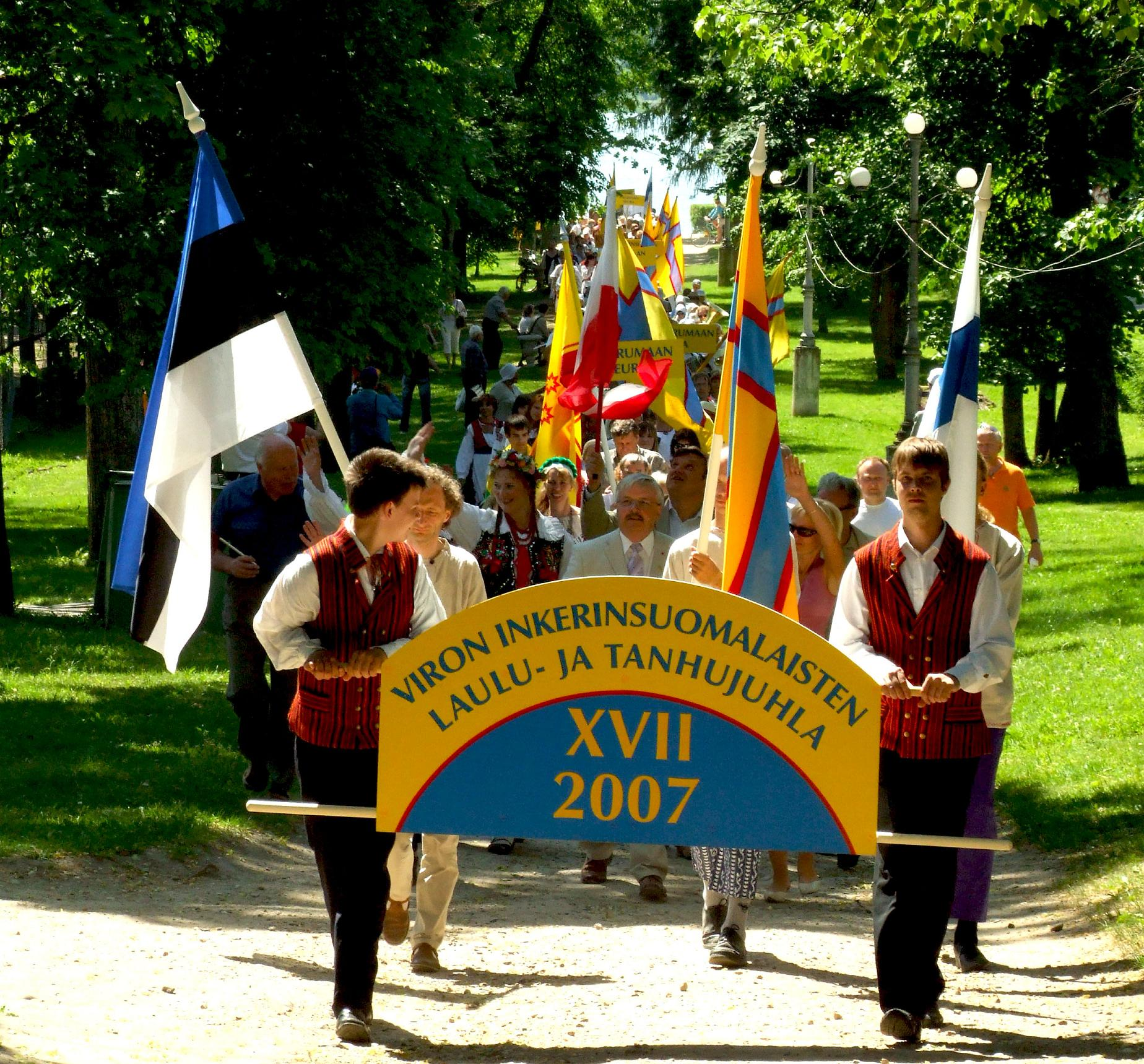 Song and Dance Festival parade of Ingrian Finns in Estonia, Võru June 10, 2007.